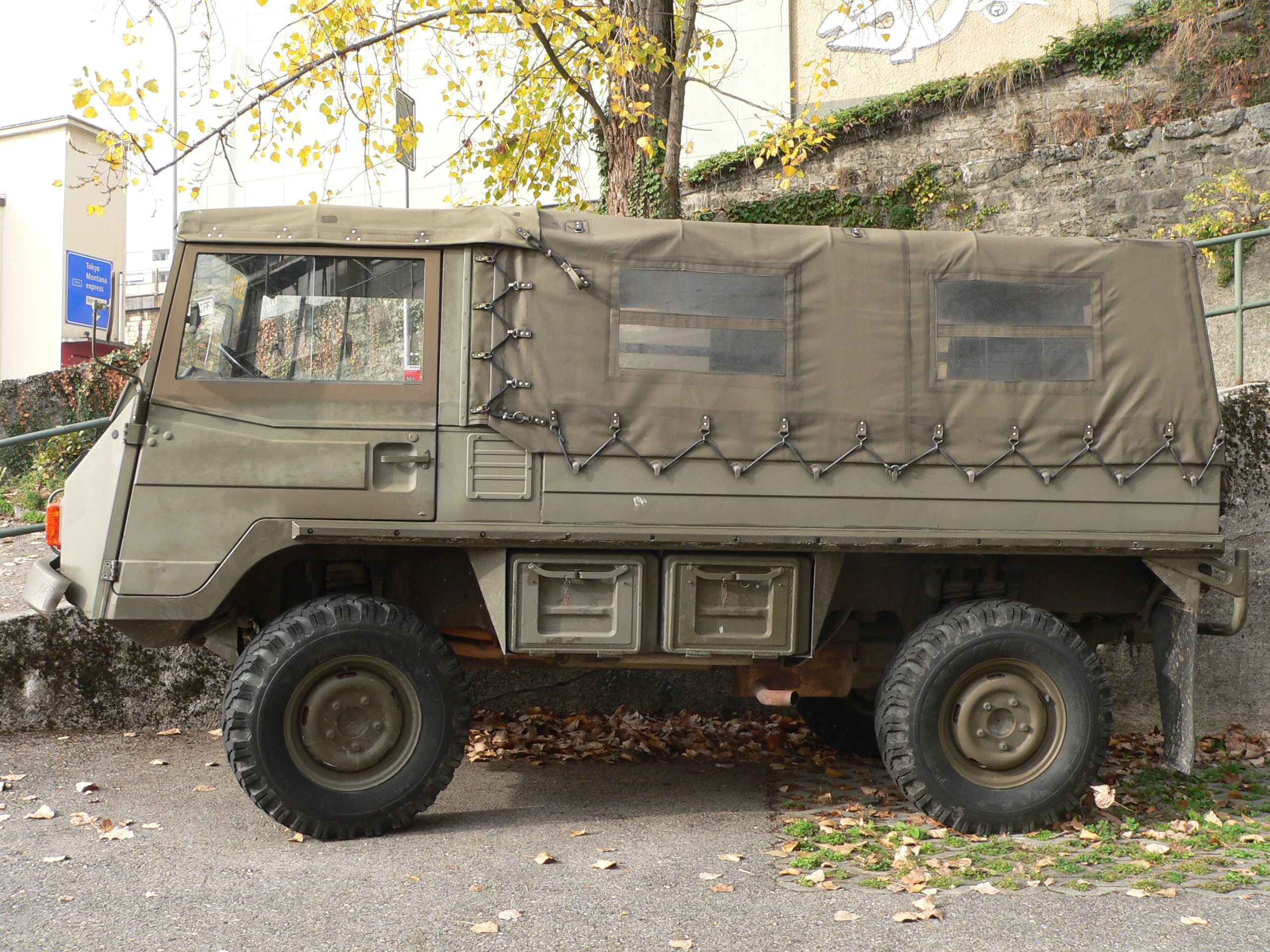 Pinzgauer vehicle of the Swiss Army